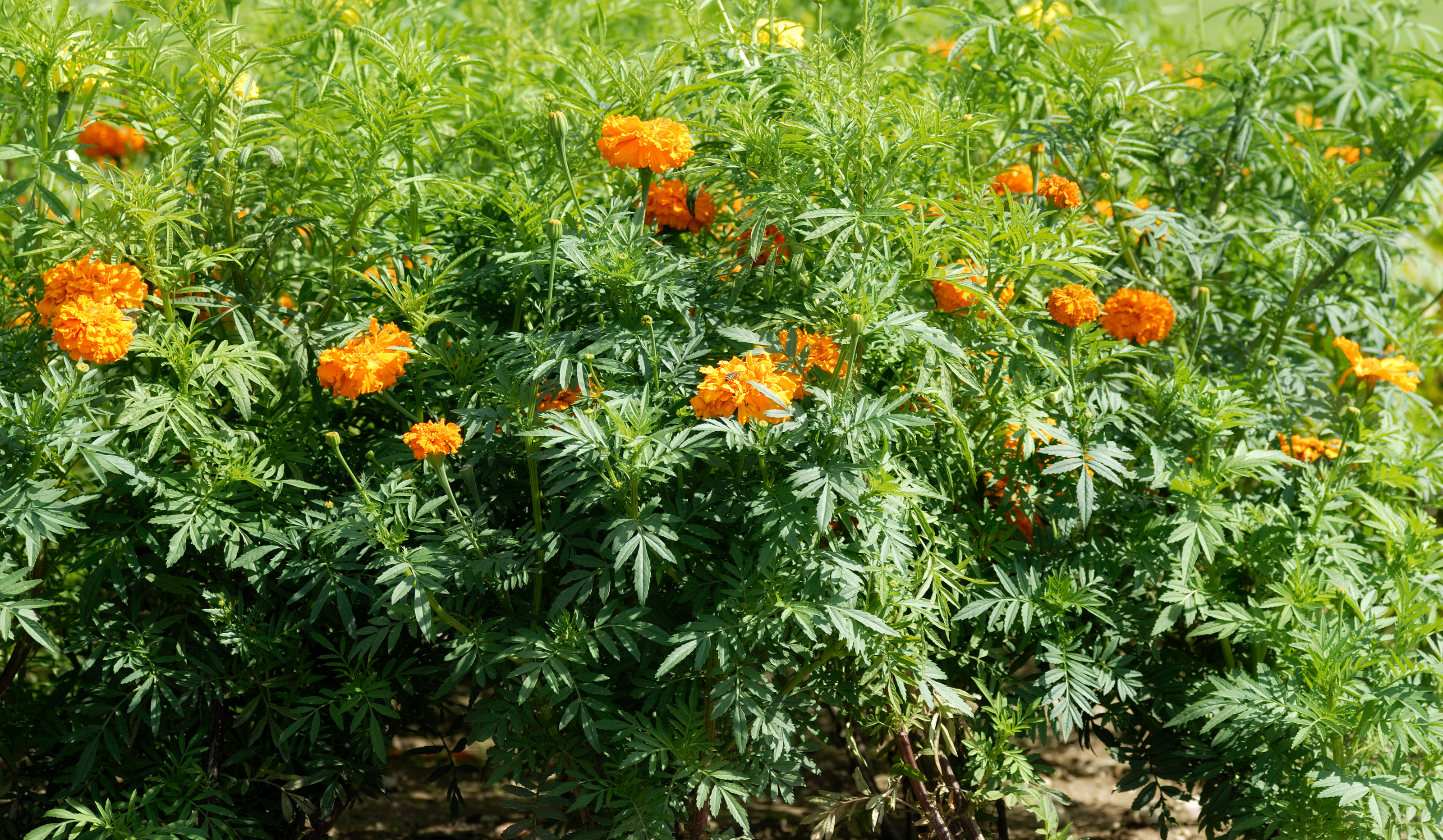 This image shows a few African Marigold flowers (Tagetes erecta).